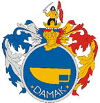 Coat of arms of Damak, Hungary